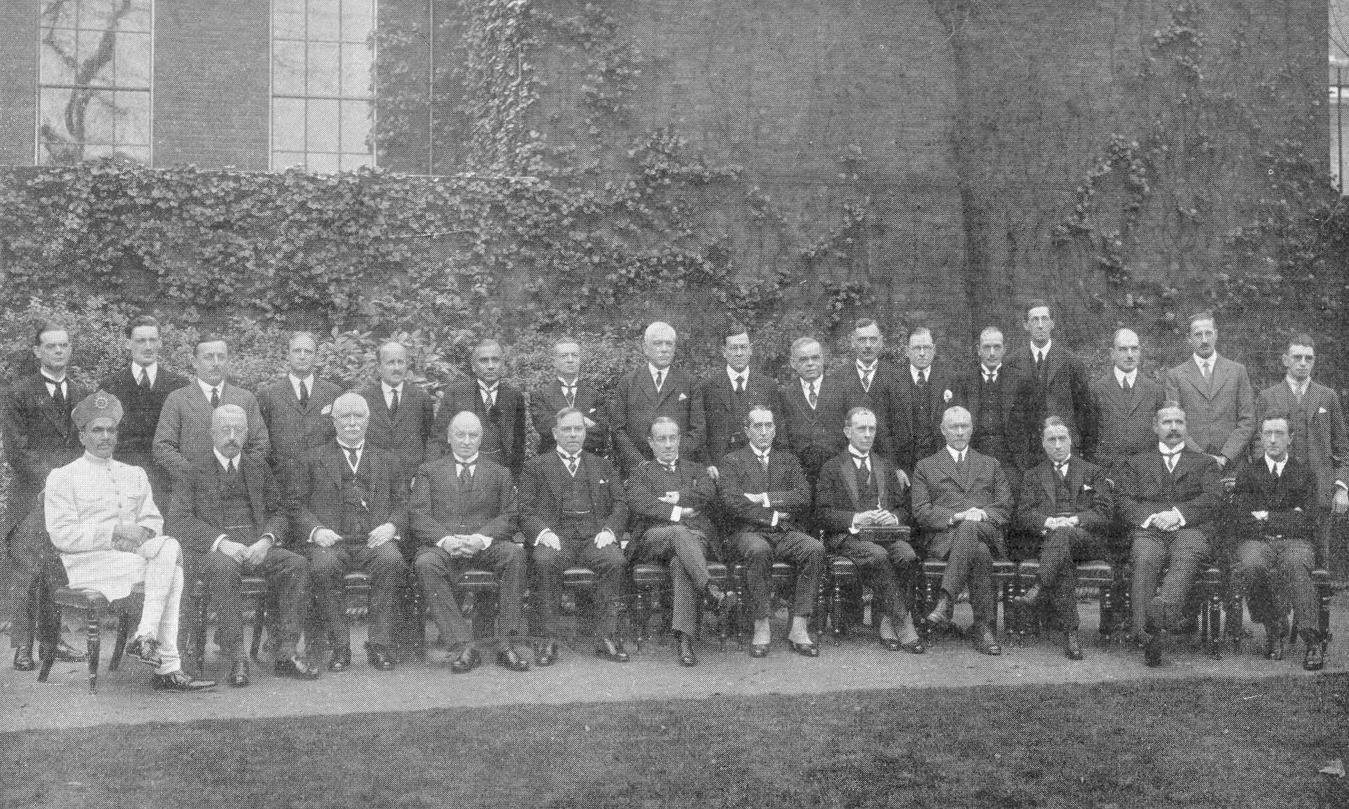 Lord Curzon at the Imperial Conference, October-November 1923. Sitting: Maharaja of Alwar, Duke of Devonshire, W.F. Massey, Lord Curzon, W.L. Mackenzie King, Baldwin, S.M. Bruce, Marquis of Salisbury, General Jan Smuts, W.L. Warren, Viscount Peel, Desmond FitzGerald